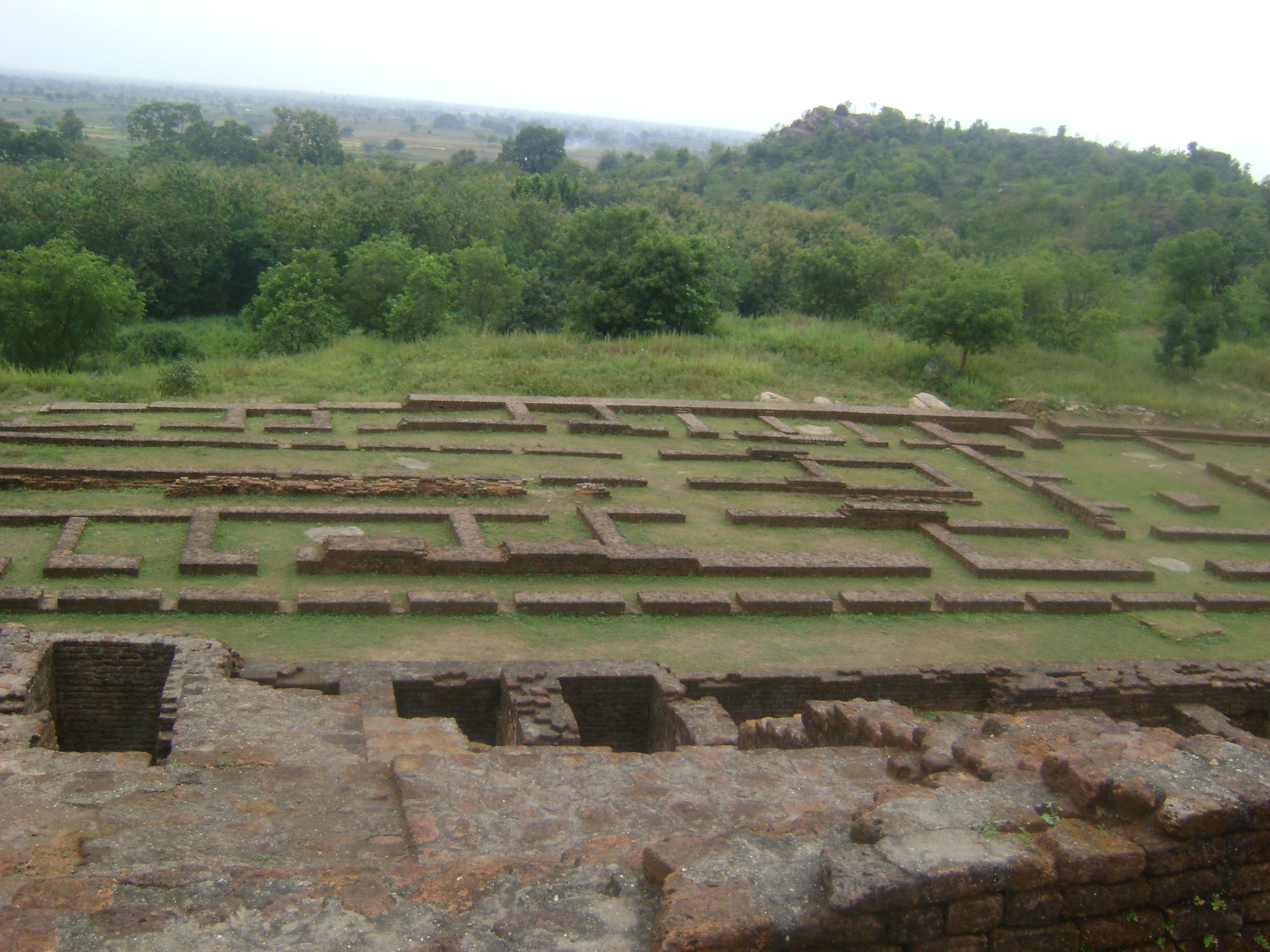 This image depicts excavation at Mansar,India.